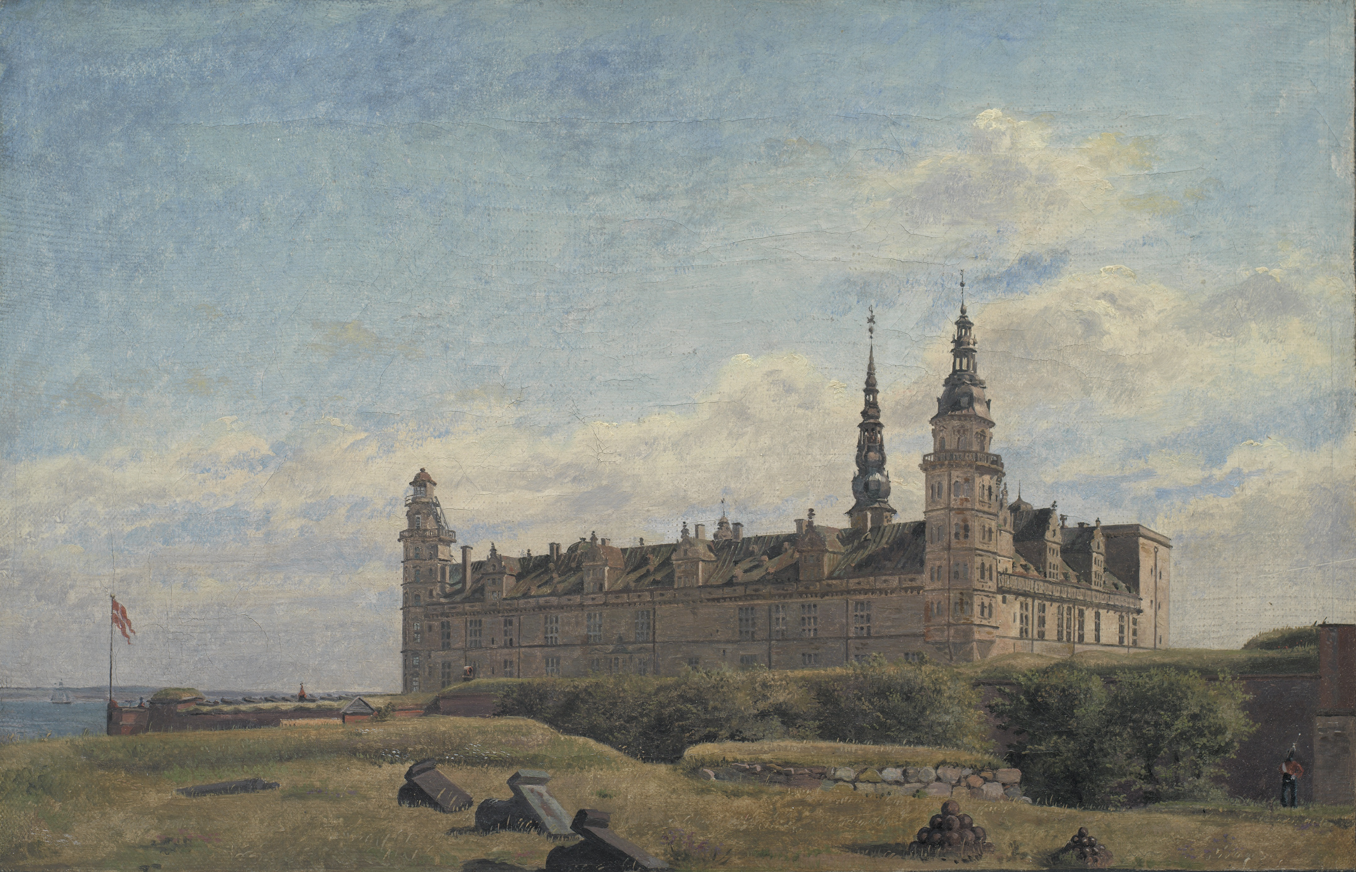 Oil study for a larger work